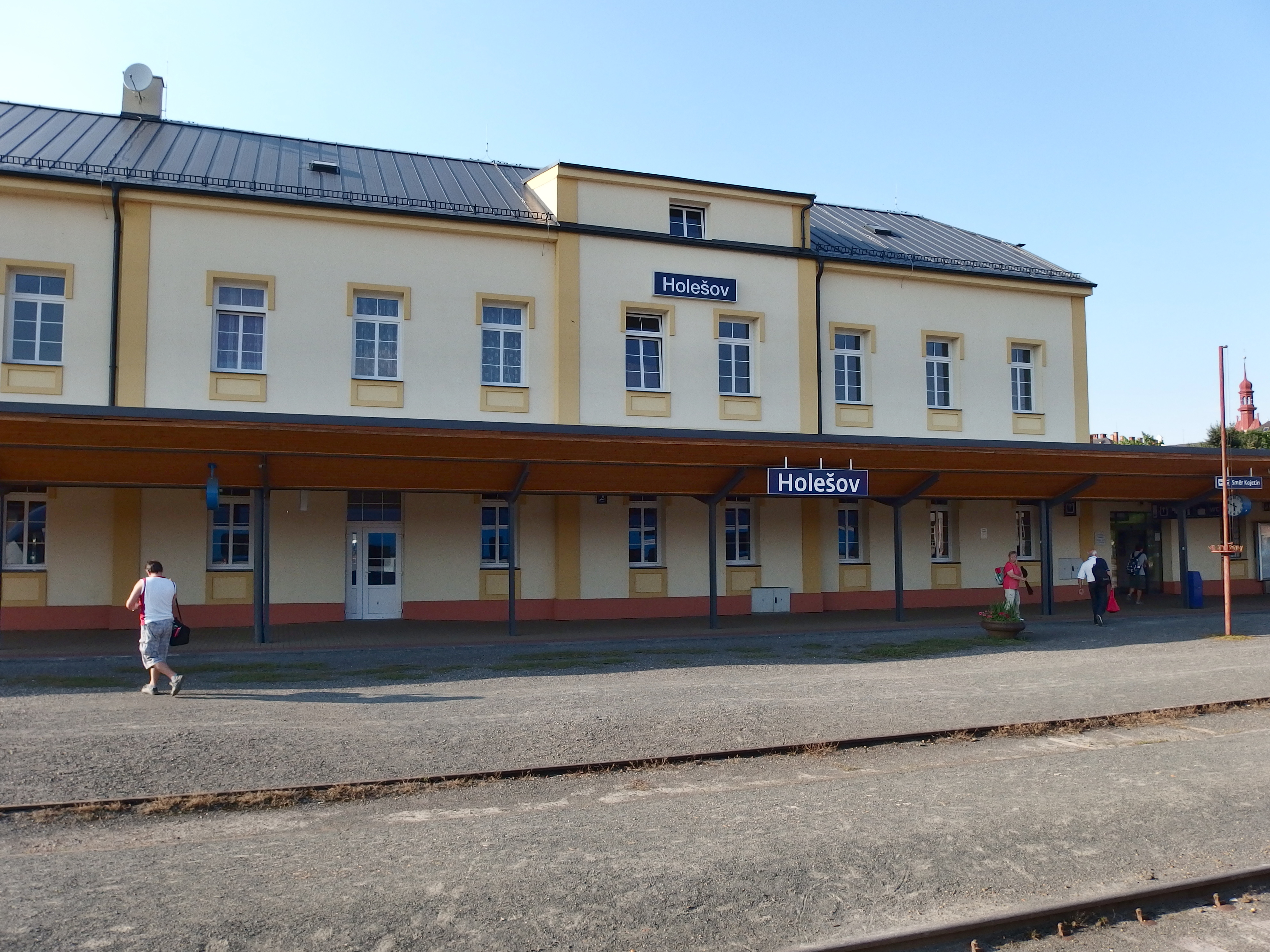 Holešov, Kroměříž District, Czech Republic. Train station.